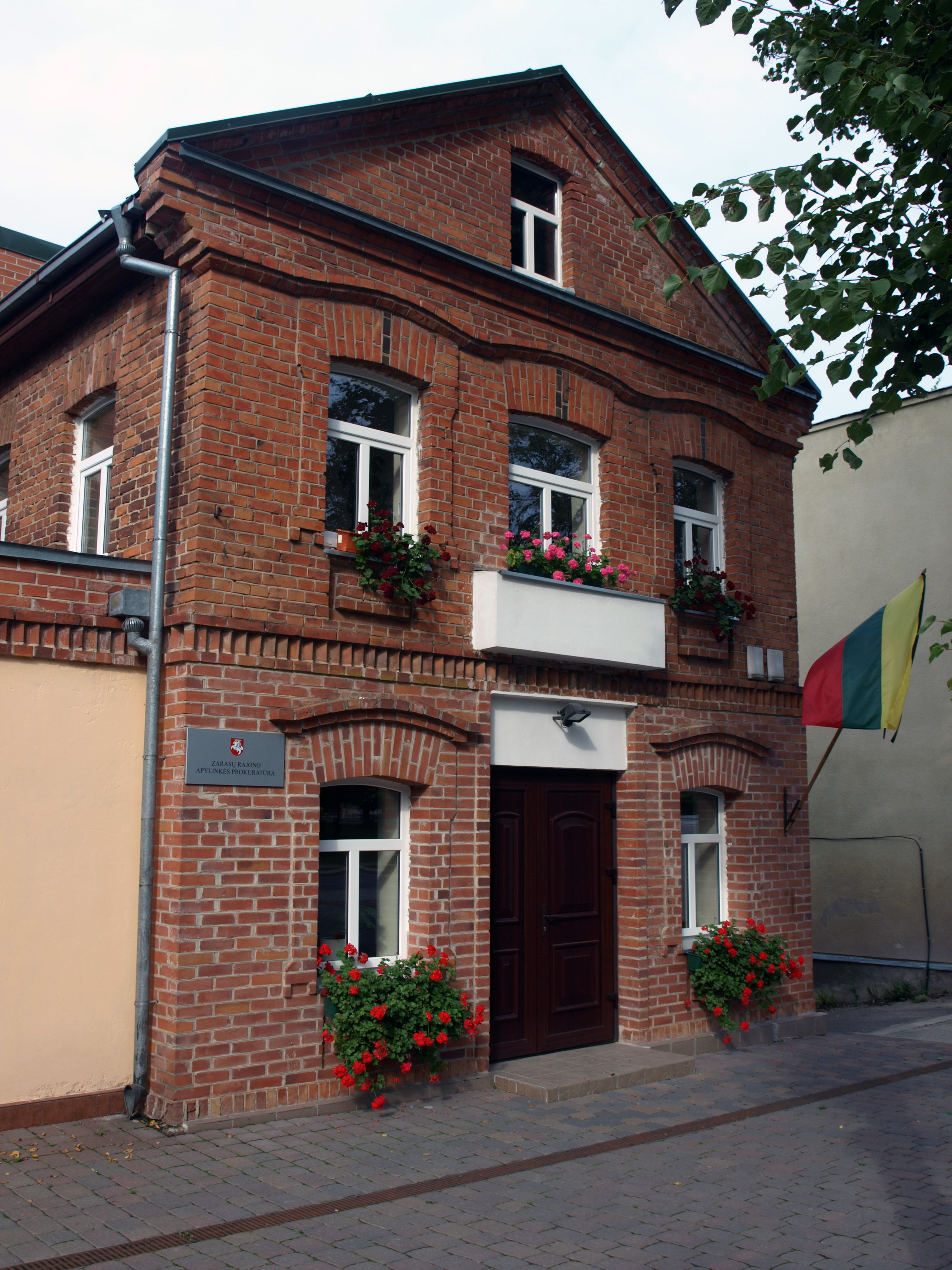 Zarasai, Zarasai district, Lithuania